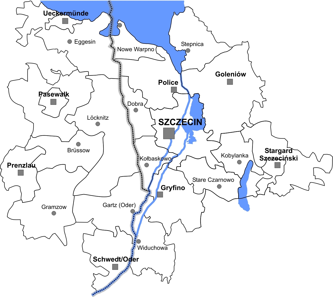 Metropolitean Area of Szczecin/Stettin